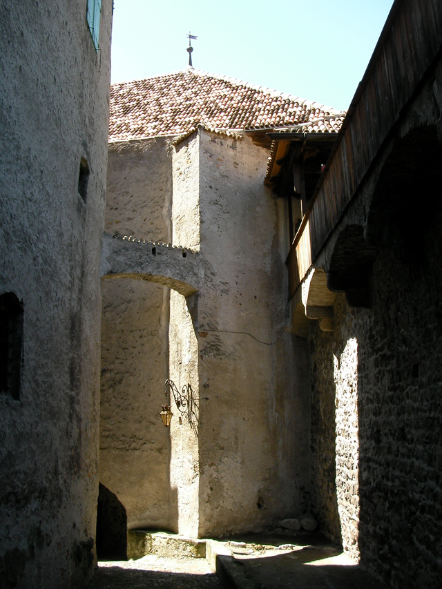 View west of buttress between hall and curtain wall, Karneid castle